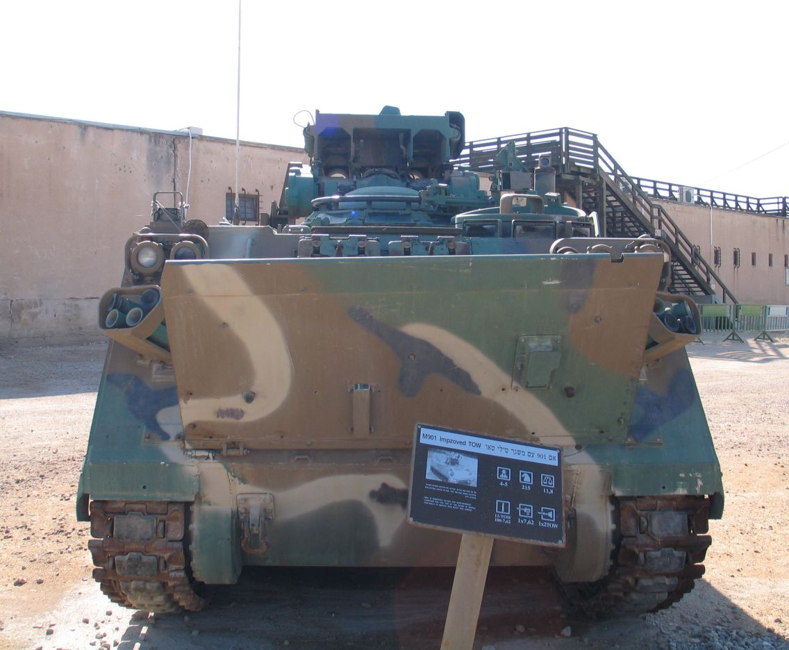 Description: M901 Improved TOW Vehicle in Yad la-Shiryon Museum, Israel. 2005. Source: Photo by me, User:Bukvoed.